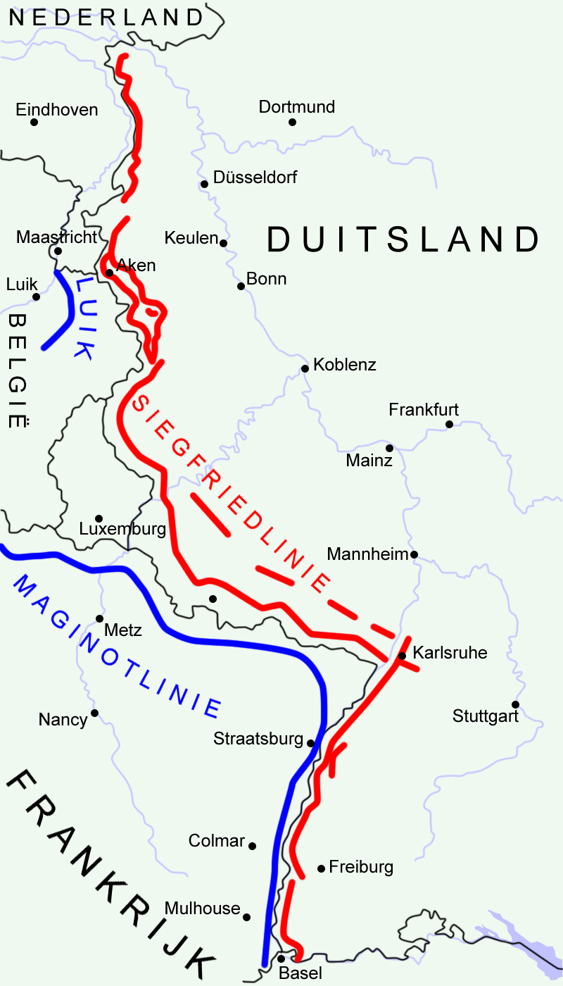 "Siegfried Line" (aka Westwall) (military defensive line) in Germany 1940 in red. "Maginotline" in blue. Disclaimer: The exact location of the lines may differ from reality to a slight extent. Made by Niels Bosboom. Based on map GNU FDL: Image:Karte westwall.png